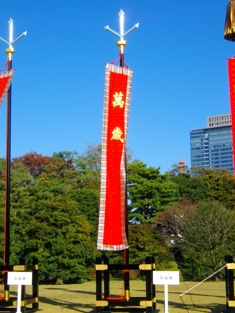 Banzai Ban(Banner with 'Banzai' written on it)